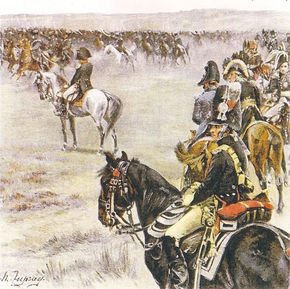 The 7th and 20th chasseurs regiments (brigade Colbert from the II Corps) marching before the Emperor